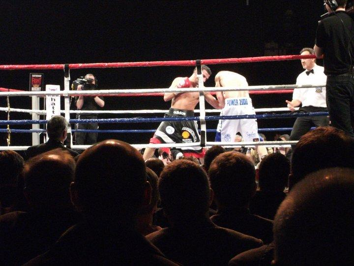 Fegatilli landing a bodyshot vs Foster Jr.